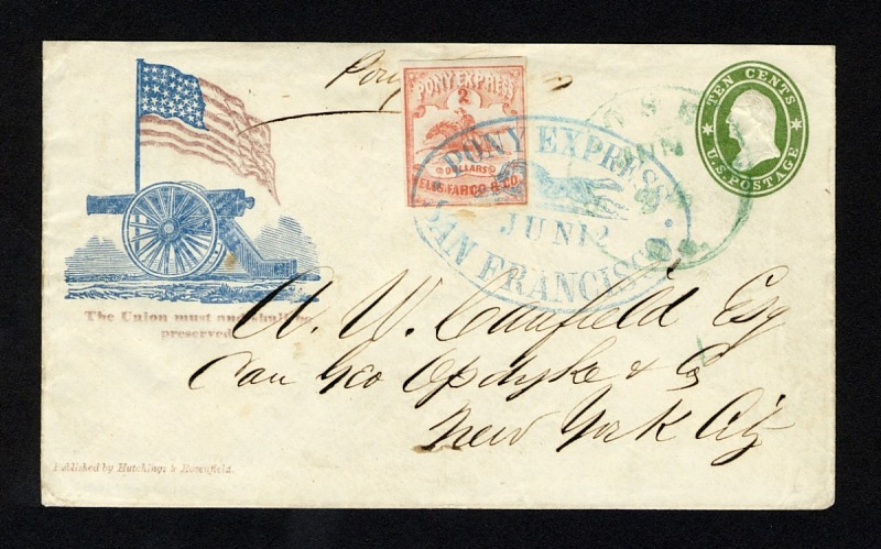 Pony ExpressUS Cover with Wells Fargo & Company 2-dollar red stamp, tied by blue "Pony Express San Francisco June 12." Running Pony oval cancel on a 10-cent stamped envelope (USA Scott U33). Cover is cancelled by green "St. Joseph, Mo. Jun 24" circular date stamp. This cover was carried by a Pony Express rider from San Francisco, California, to A.W. Canfield in New York, NY, in twelve days during June of 1861.